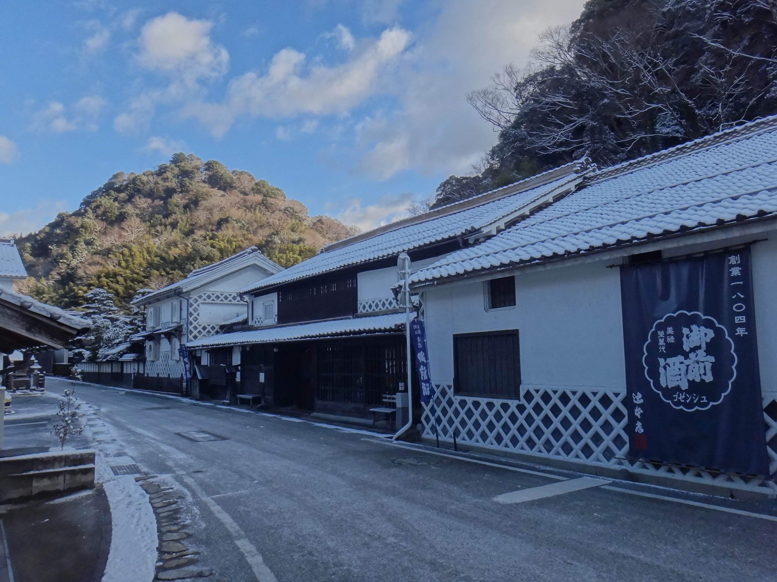 katuyama area,maniwa city,okayama pref